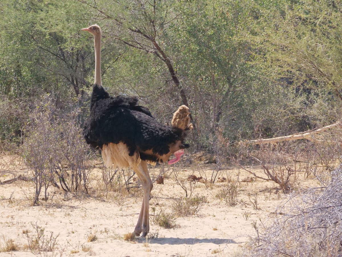 A male ostrich with a pink, inverted penis. He's not courting, but has defecated.